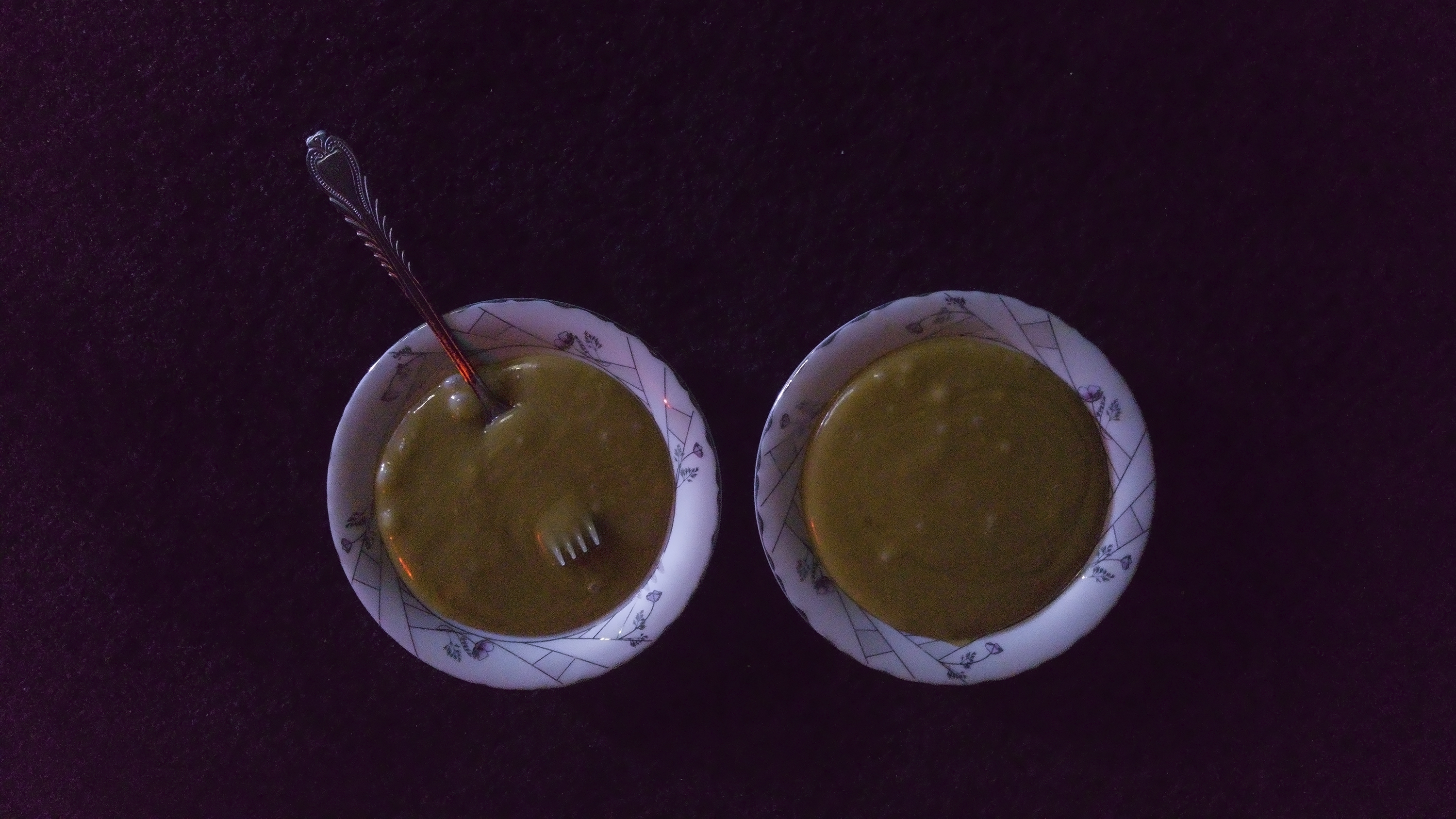 Tahini /tɑːˈhiːni/ (also tahina /-nə/; Arabic: طحينة), also known as Ardeh (Persian: ارده), is a condiment made from toasted ground hulled sesame seeds.